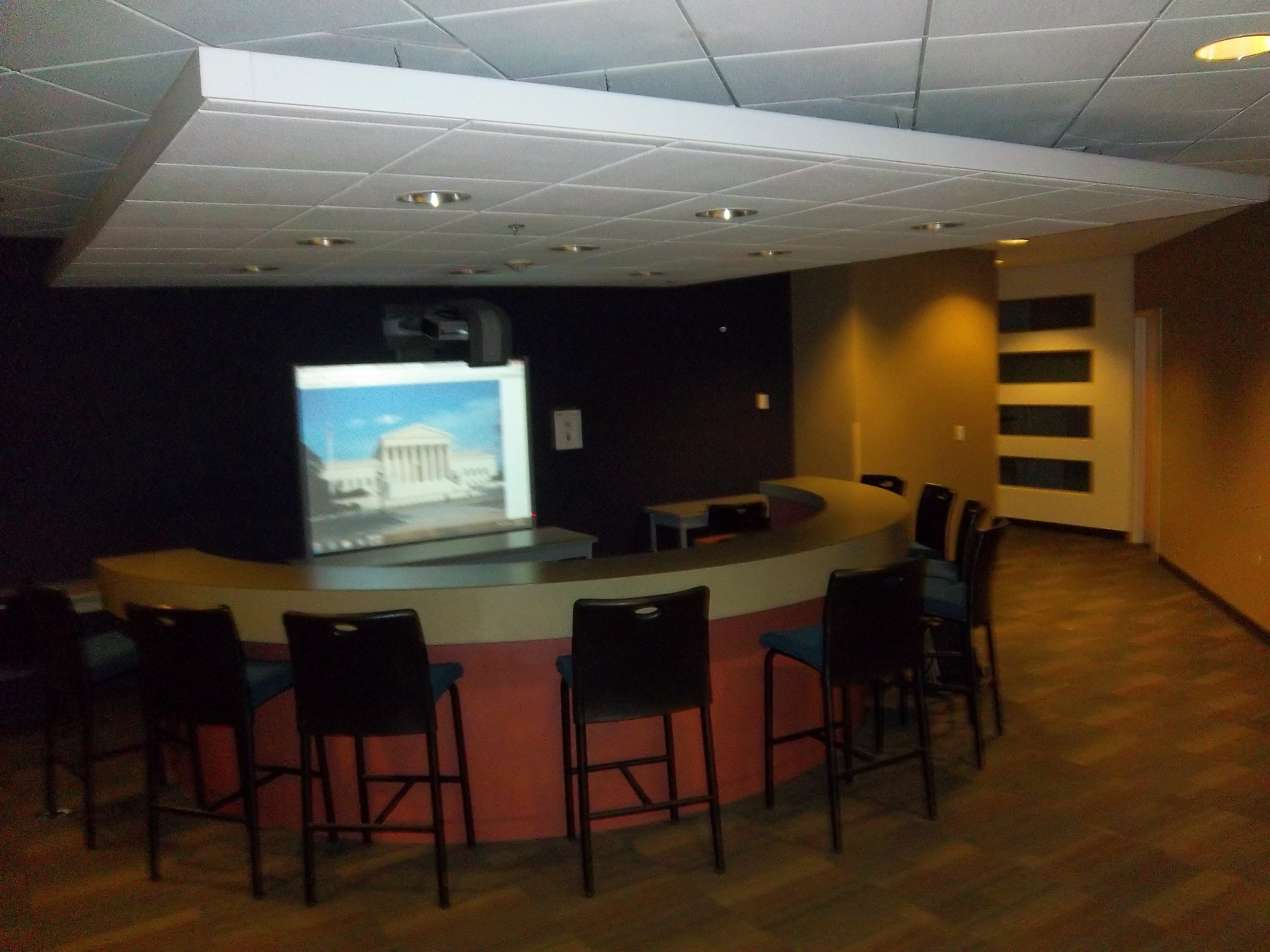 The knowledge bar is used to continue conversations outside of the classroom.